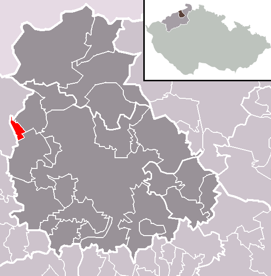 Location of Přestanov municipality within Ústí nad Labem District and administrative area of Ústí nad Labem as a Municipality with Extended Competence.